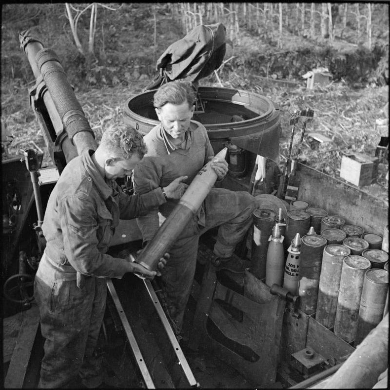 The crew of a Priest 105mm self-propelled gun filling the shell racks, Italy.